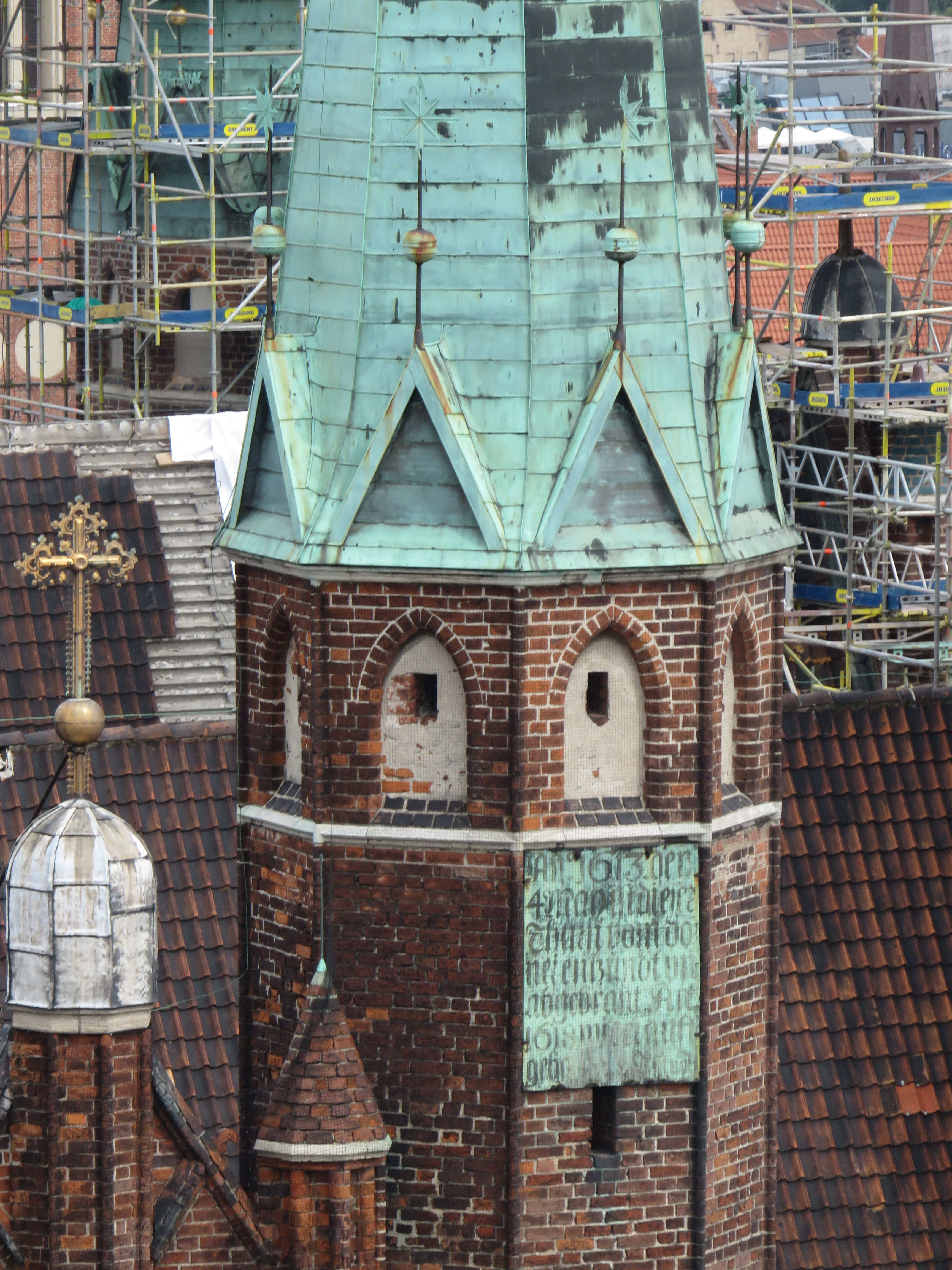 Partial view: Church of St. Mary in Gdańsk, view from the tower of the Main Town Hall. (Inscription: On May 4, 1613, this tower was ignited by thunder and burnt down and rebuilt in 1618.)